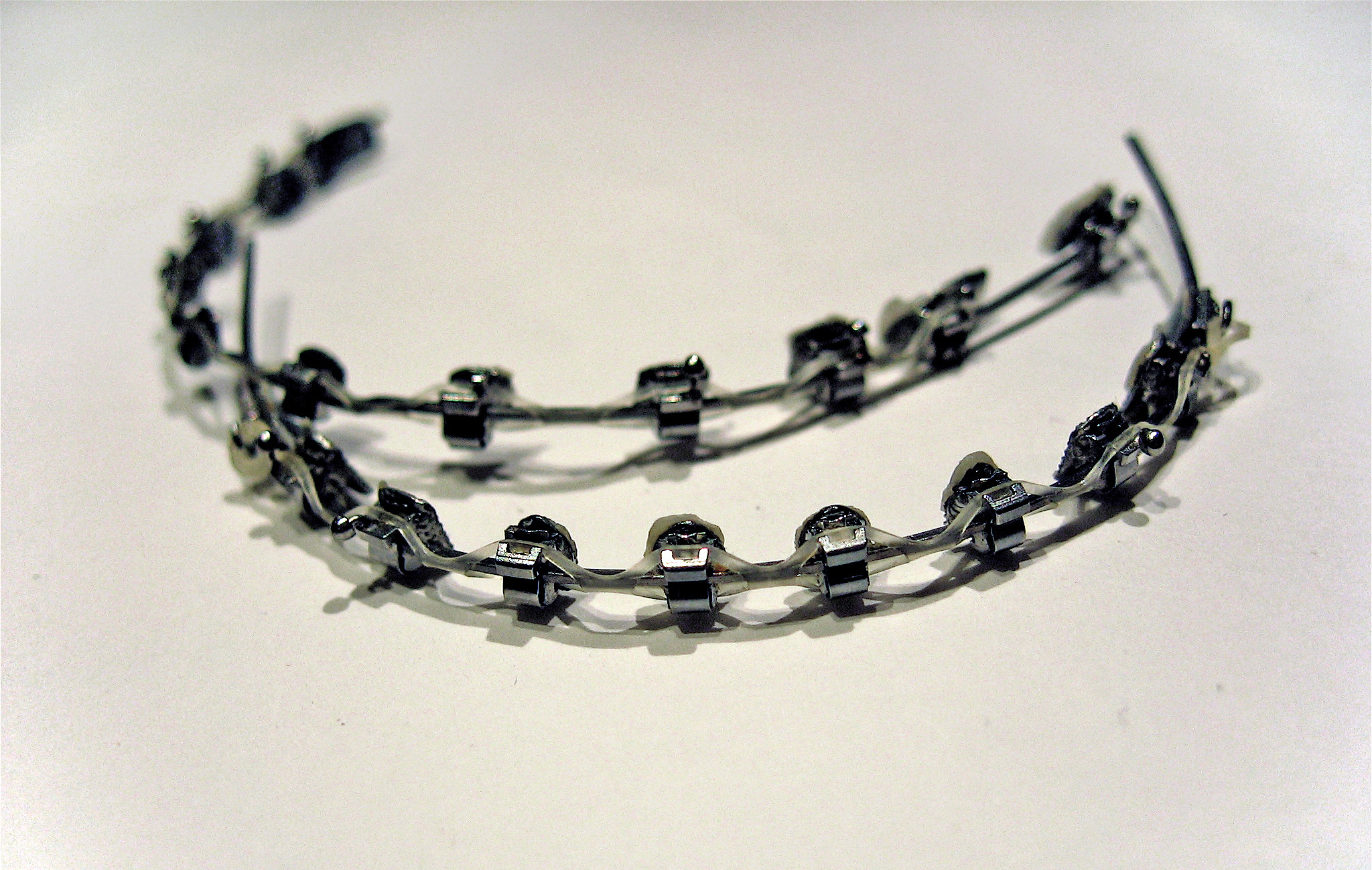 Dental braces, with a powerchain, removed after completion of treatment.